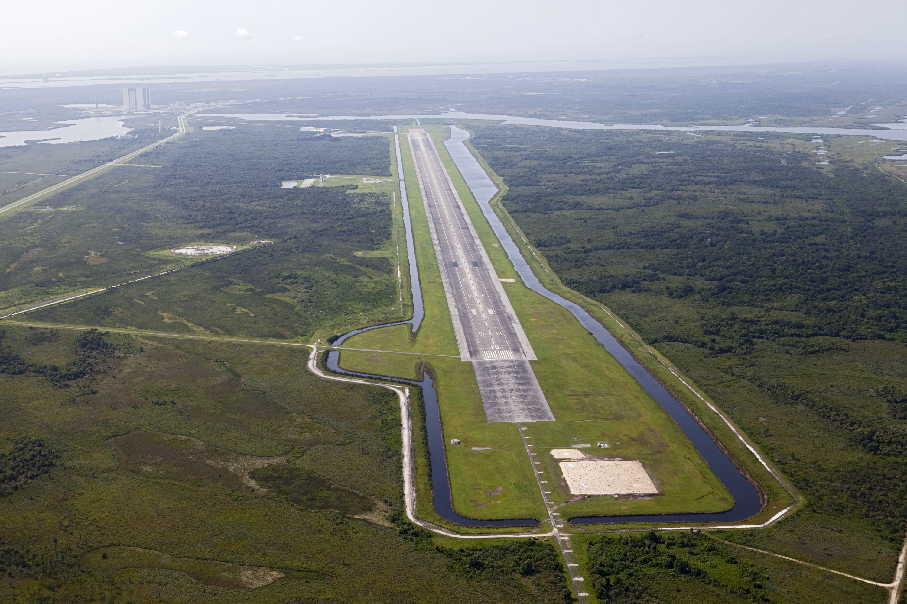 This aerial view shows the 15,000-foot long Shuttle Landing Facility at the Kennedy Space Center, Fla. At the north end of the runway, to the bottom, is a rock and crater-filled planetary scape has been built so engineers can test the Autonomous Landing and Hazard Avoidance Technology, or ALHAT system on the Project Morpheus lander. Testing will demonstrate ALHAT’s ability to provide required navigation data negotiating the Morpheus lander away from risks during descent. Checkout of the prototype lander has been ongoing at NASA’s Johnson Space Center in Houston in preparation for its first free flight. The SLF site will provide the lander with the kind of field necessary for realistic testing. Project Morpheus is one of 20 small projects comprising the Advanced Exploration Systems, or AES, program in NASA’s Human Exploration and Operations Mission Directorate. AES projects pioneer new approaches for rapidly developing prototype systems, demonstrating key capabilities and validating operational concepts for future human missions beyond Earth orbit.